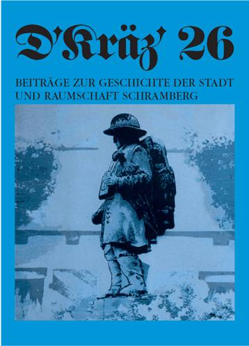 Cover of D’Kräz 26